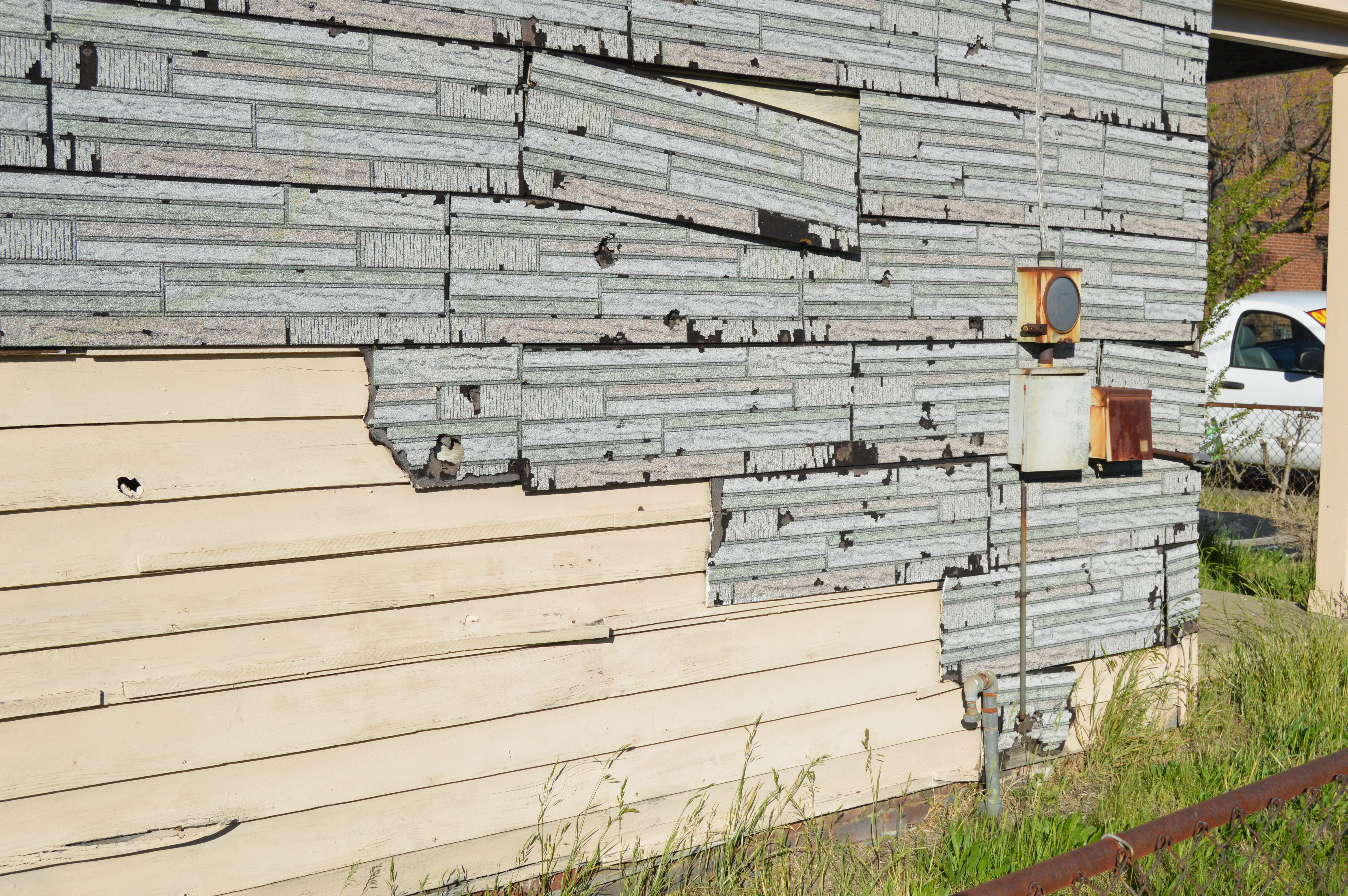 Dangling Insulbrick siding on the house at the northern corner of the intersection of "O" and Twentieth Streets in Richmond, Virginia, United States. The outer siding is an asphalt product, intentionally placed to cover the wooden under-siding.